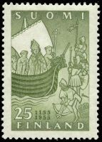 Swedish Crusades to Finland 800 years ago - in 1155 heade by King Erik and bishop Henry